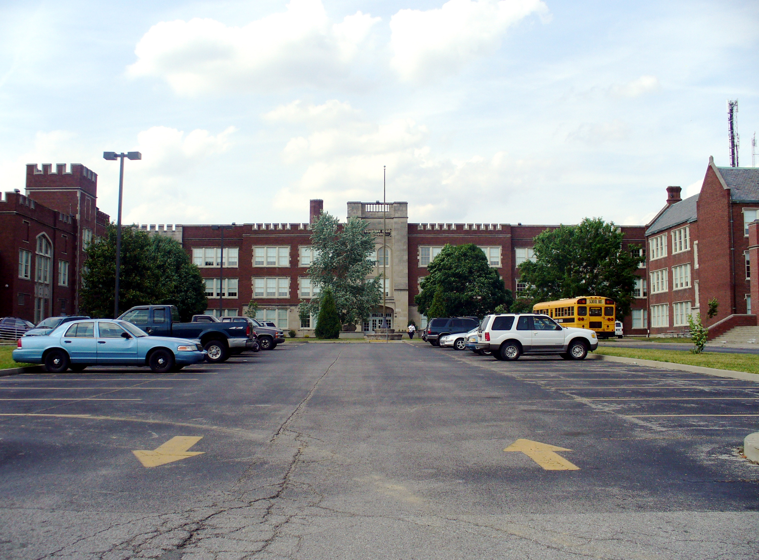 Picture of outside of Shawnee High School in Louisville, Kentucky. Picture is not of view from street, but rather the view from outside the central entrance (on the "back side" of the school, relative to Market Street). This is the image usually thought of regarding Shawnee.